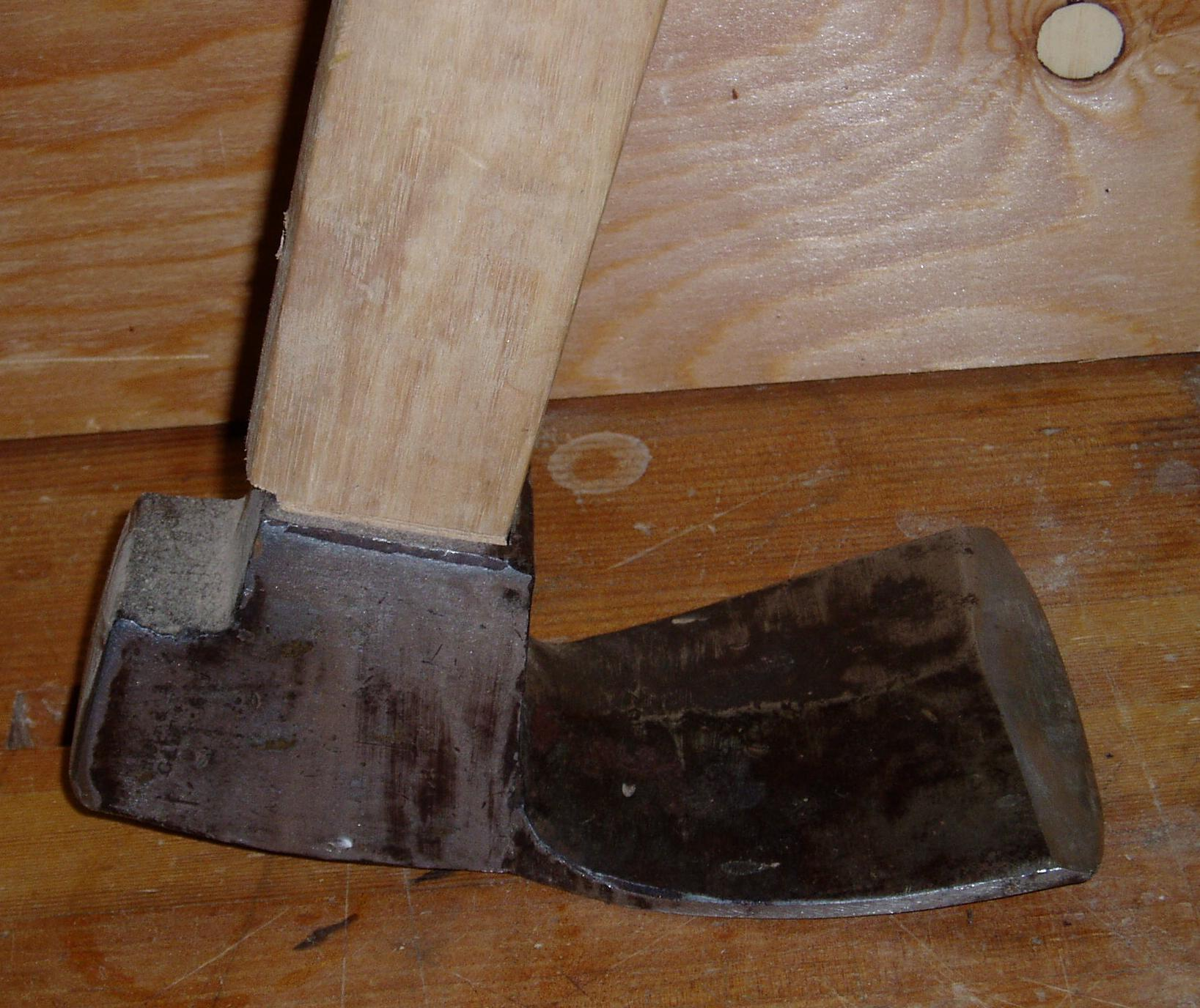 Picture of adze taken 18 September, 2005 by Luigi Zanasi (myself) on my workbench using a Olympus digital camera.